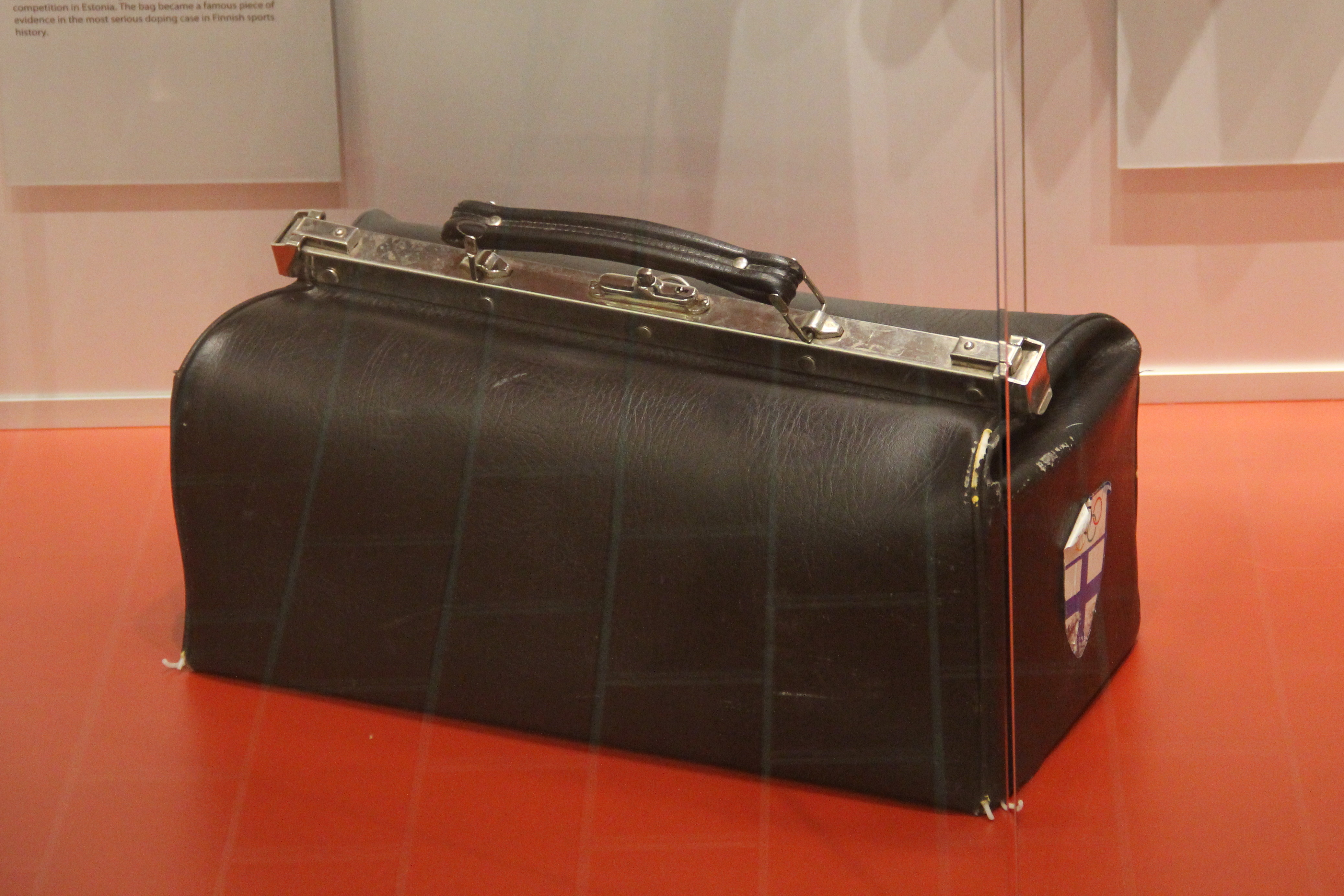 Sports Museum of Finland, Helsinki, Finland. A doctor's bag once belonged to the Finnish Ski Association.